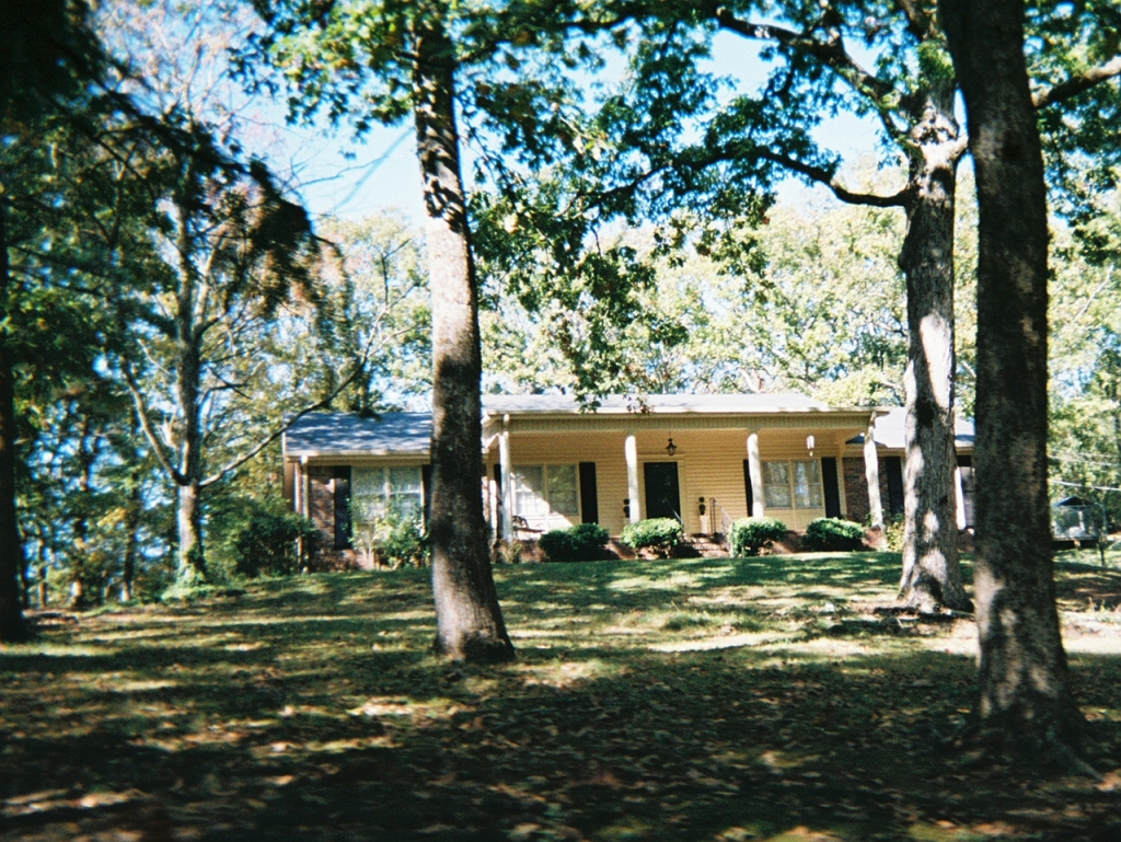 174 Mollie Dr in Selmer, Tennessee. Scene of the Matthew Winkler murder in 2006. Photo made by: Thomas R Machnitzki (2007) I made the photo myself, feel free to use it.